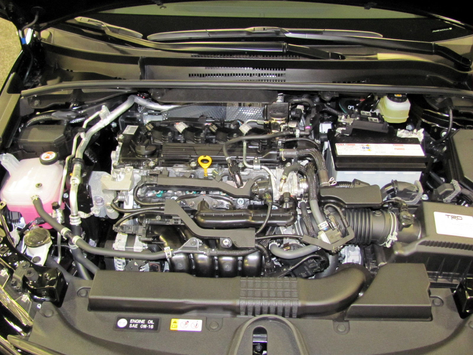 M20A-FKS Toyota engine as in a US market model year 2019 Corolla XSE 5-door (E210)